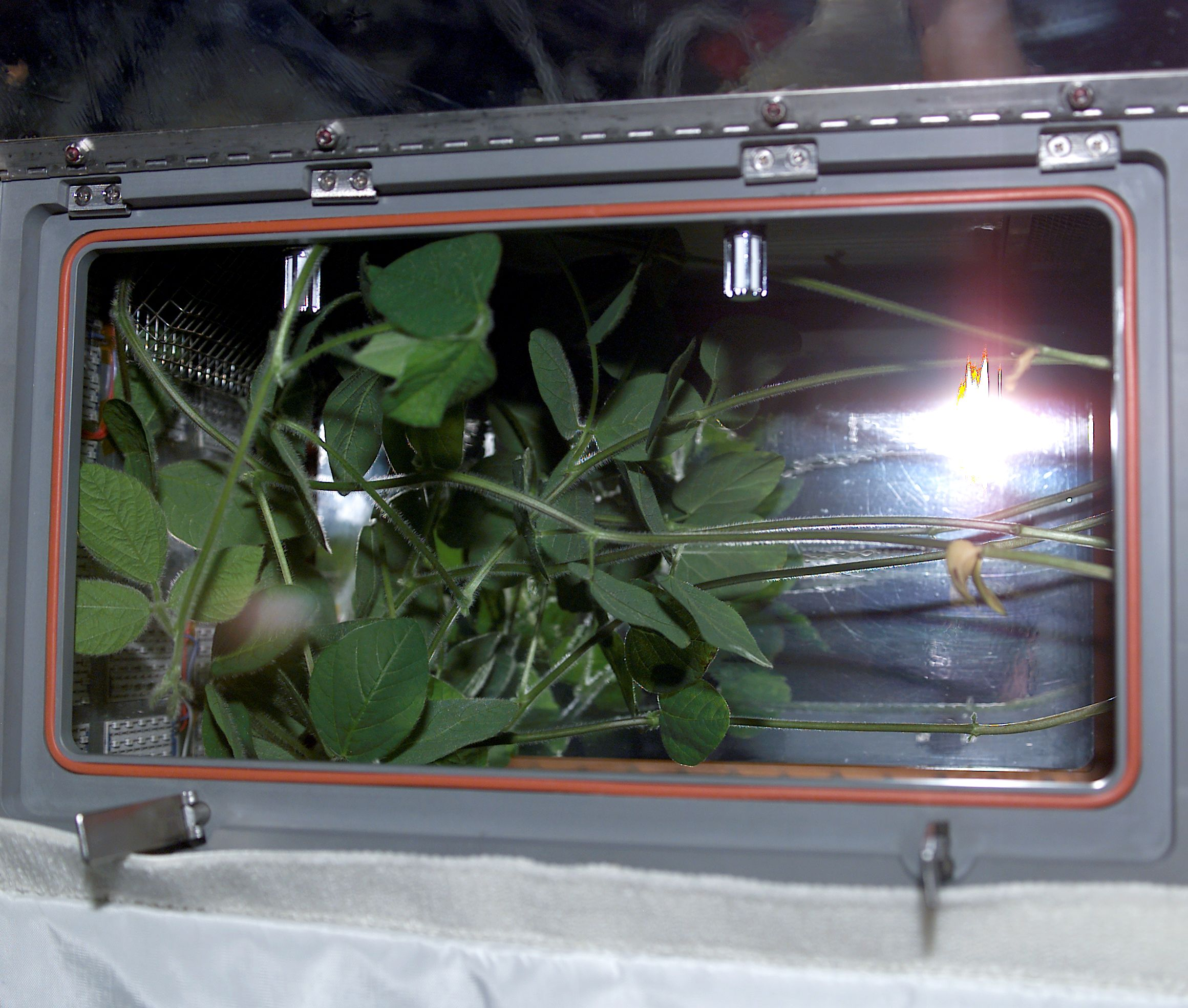 A close-up view of the Advanced Astroculture soybean plant growth experiment in the Destiny laboratory on the International Space Station.